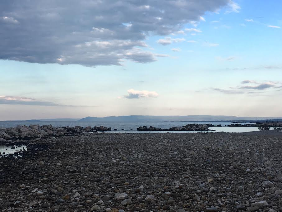 view of gargano from Termoli